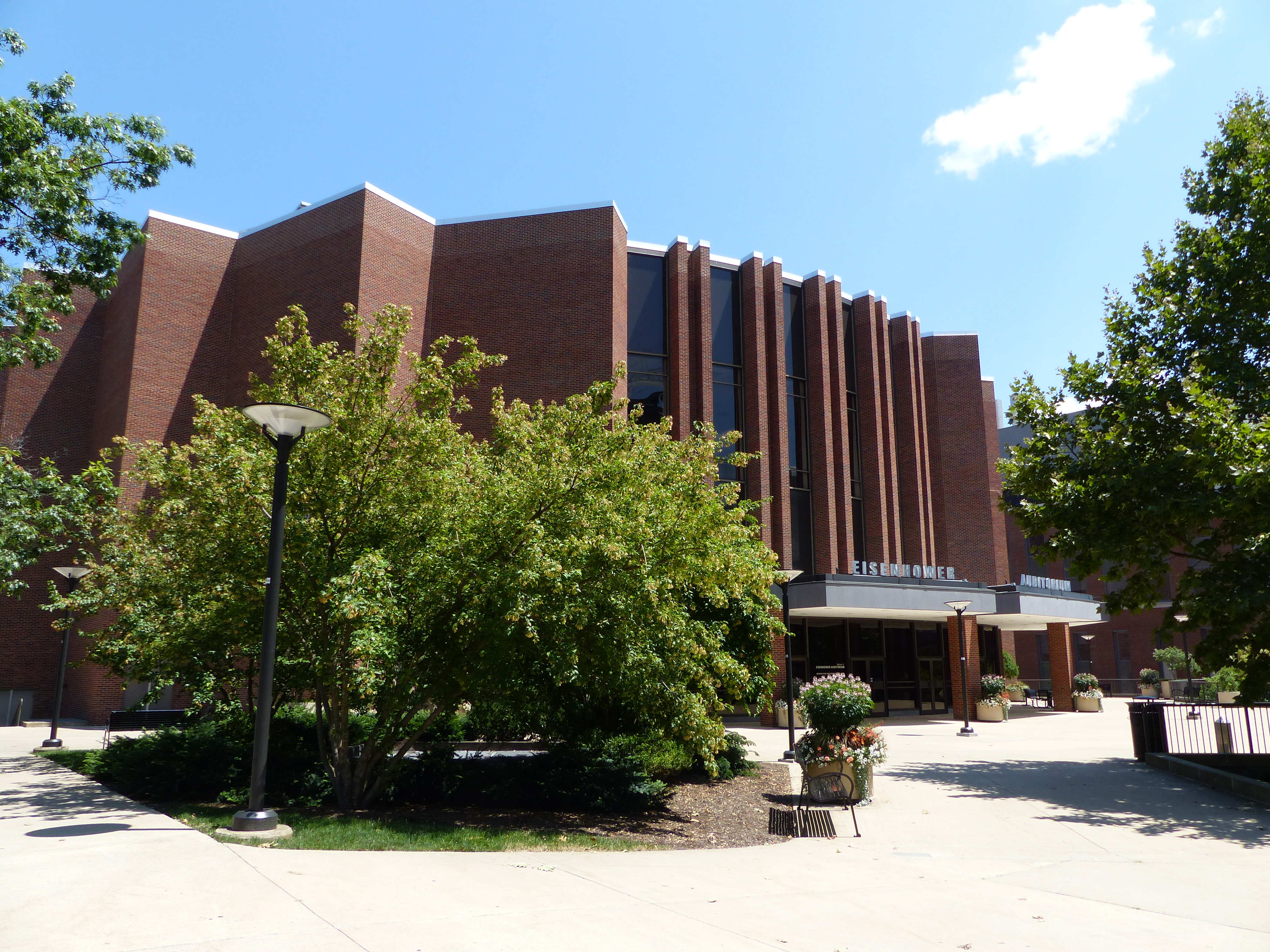 university building